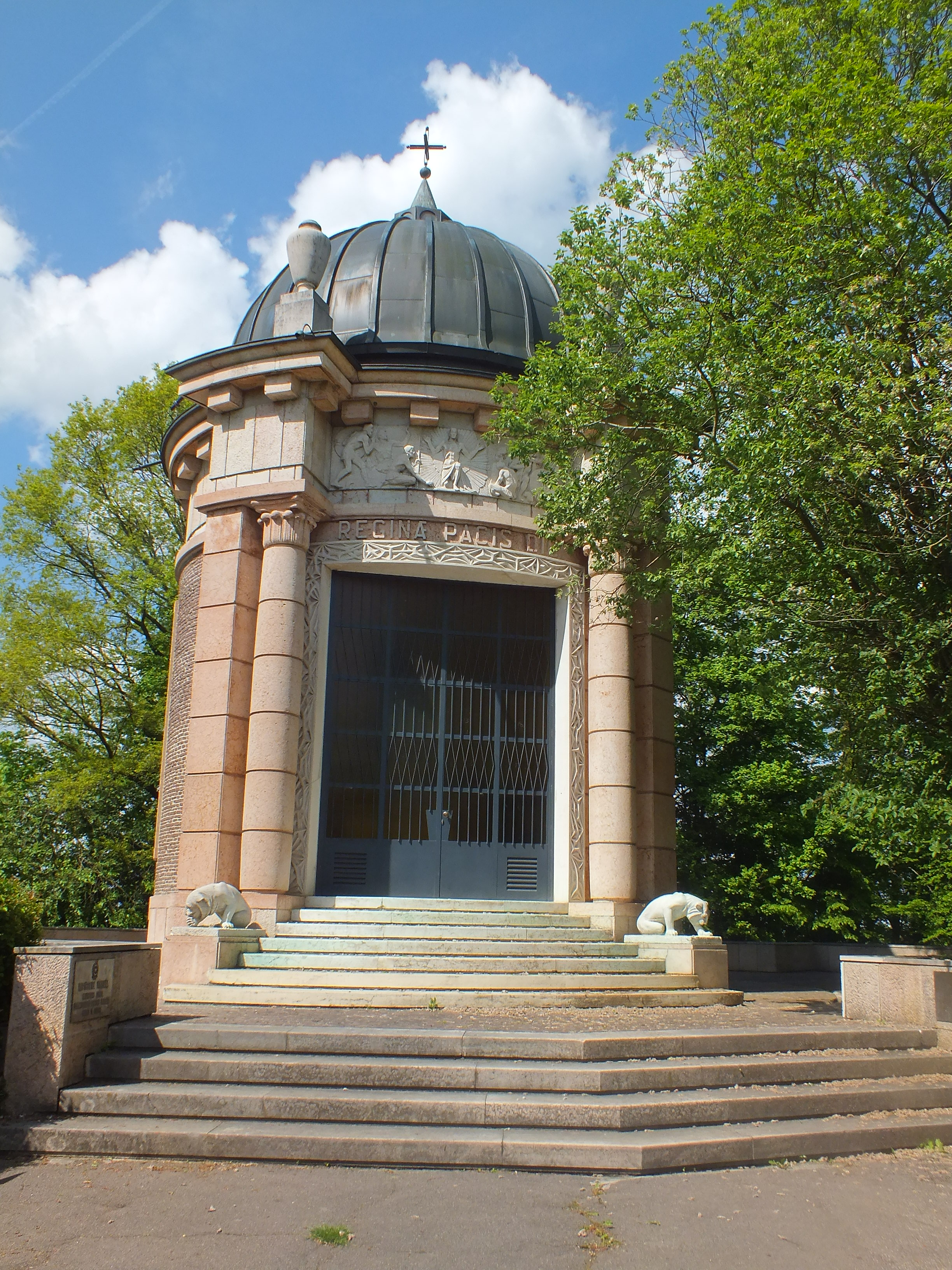 concentration camp cemetery Dachau-Leitenberg